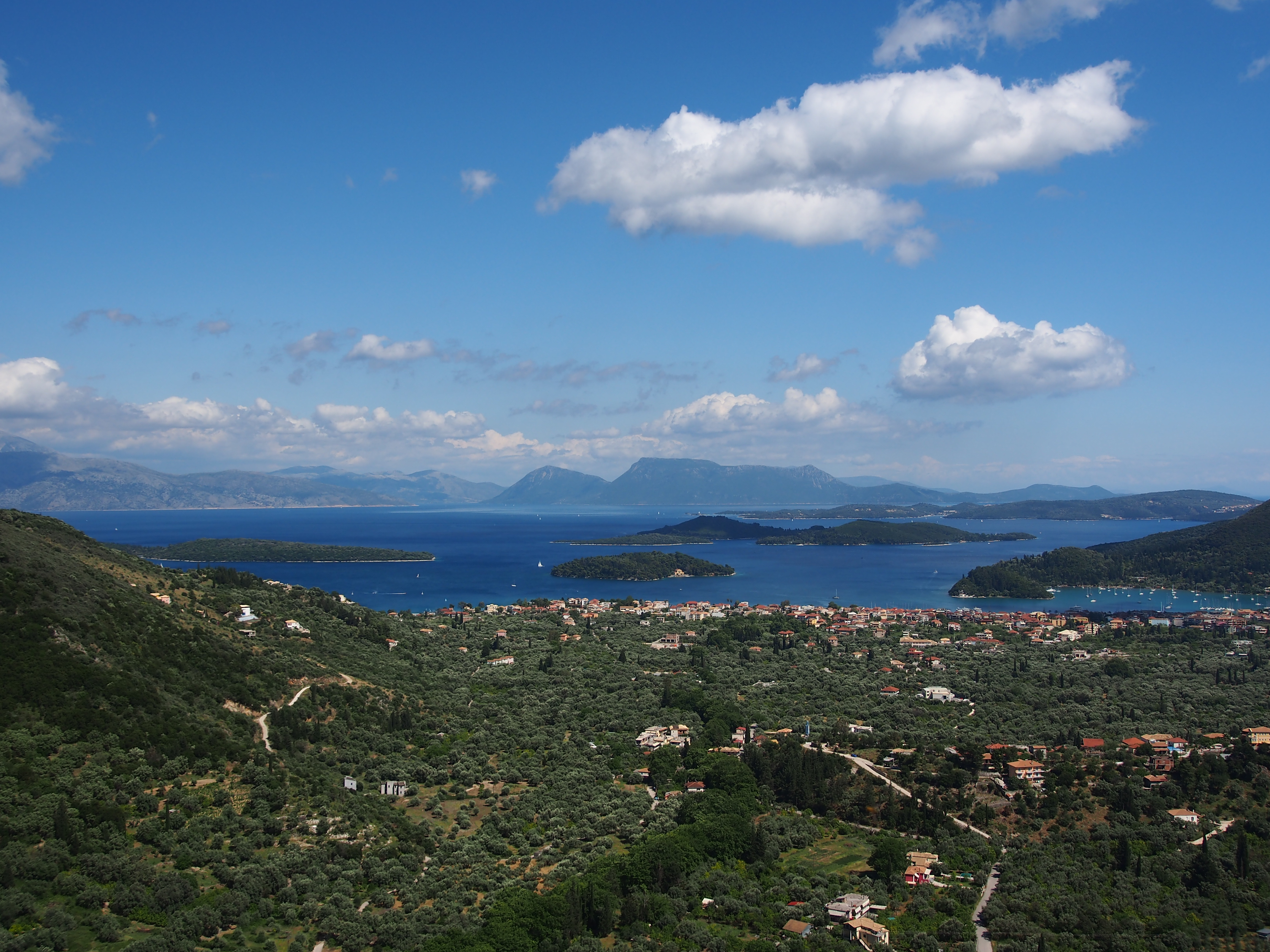 Photographed on Lefkada, Greece.